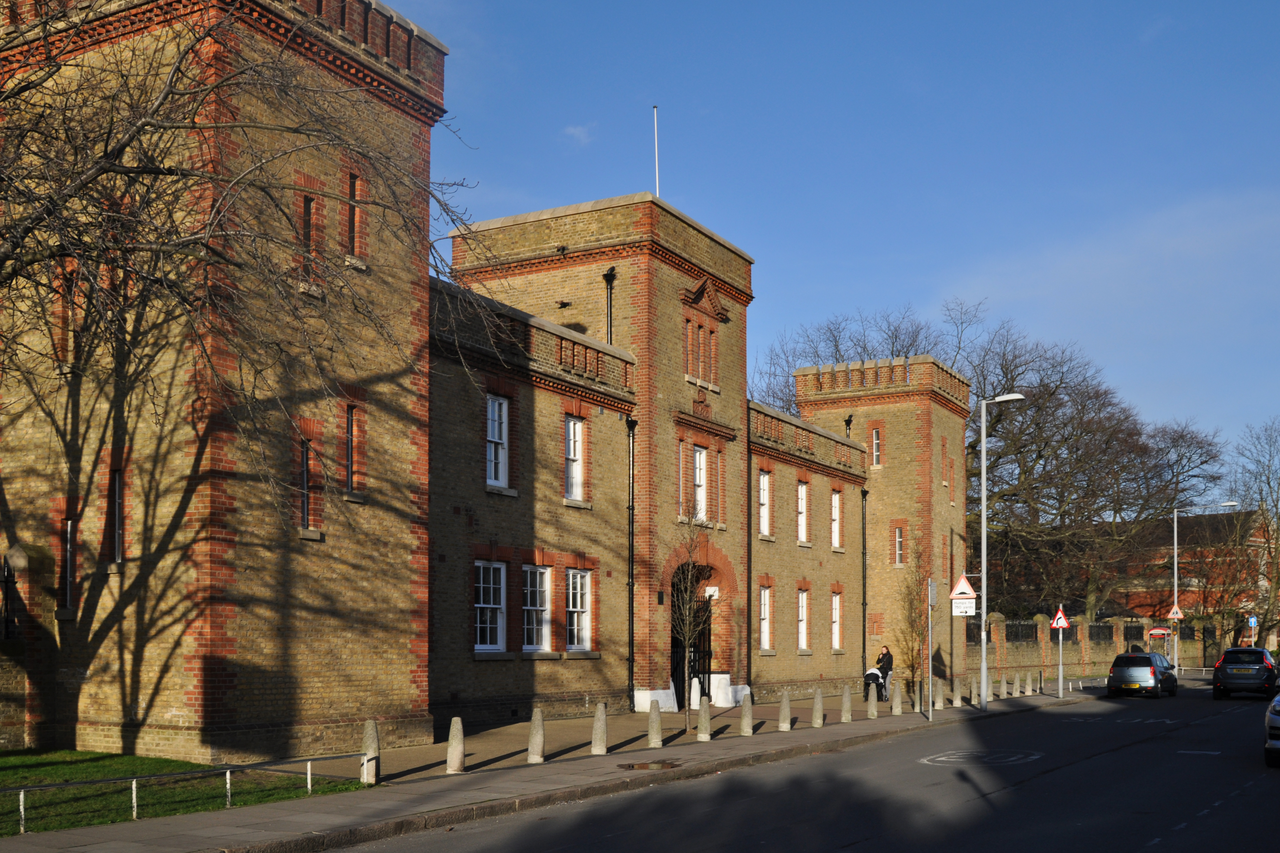 The Gatehouse (Or Keep) And Attached Walls And Railings At Kingston Barracks Wikidata has entry Q26671923 with data related to this item.